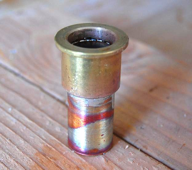 Copper Brass Fitting Soldering. 1/2 inch diameter pipe.